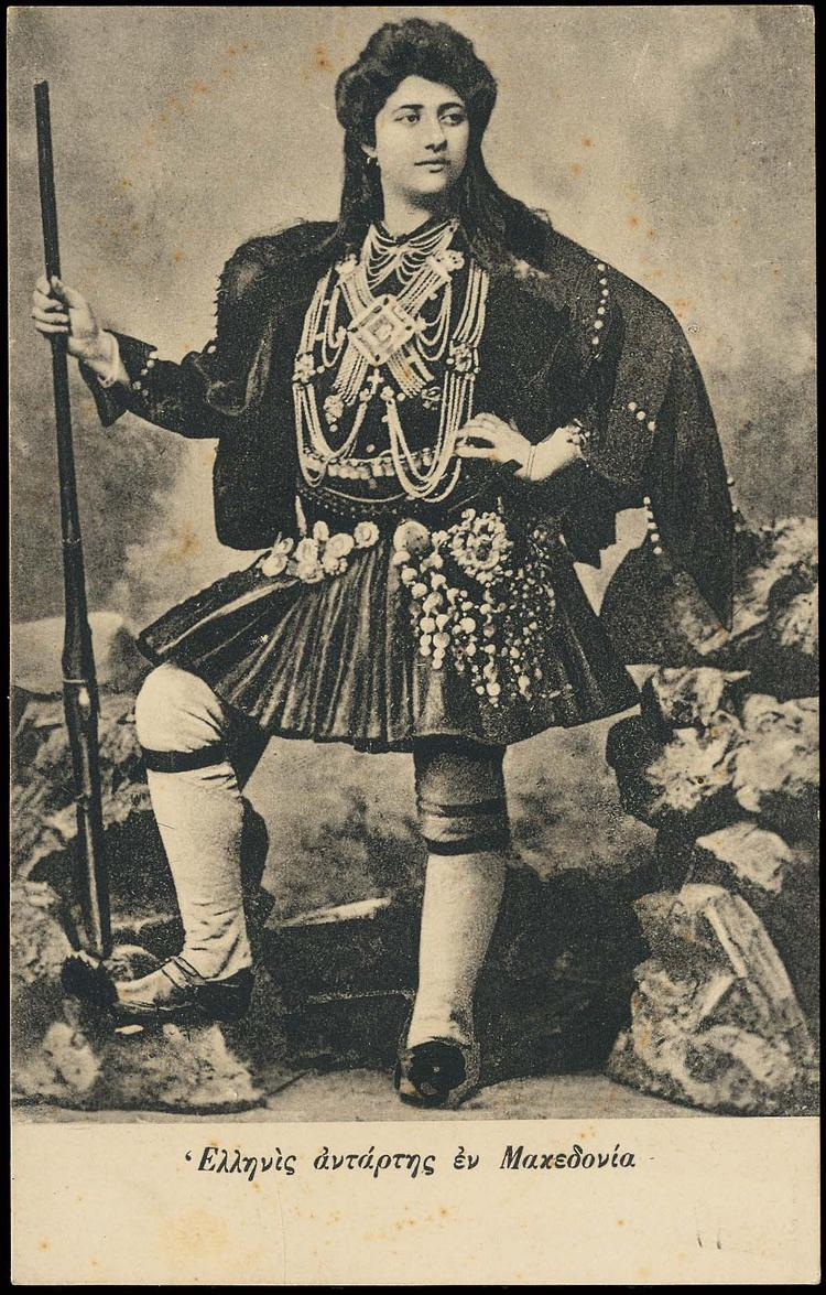 Grek revolutionary Peristera Kraka from Siatista, Macedonia, participated in greek rebel forces in 1878